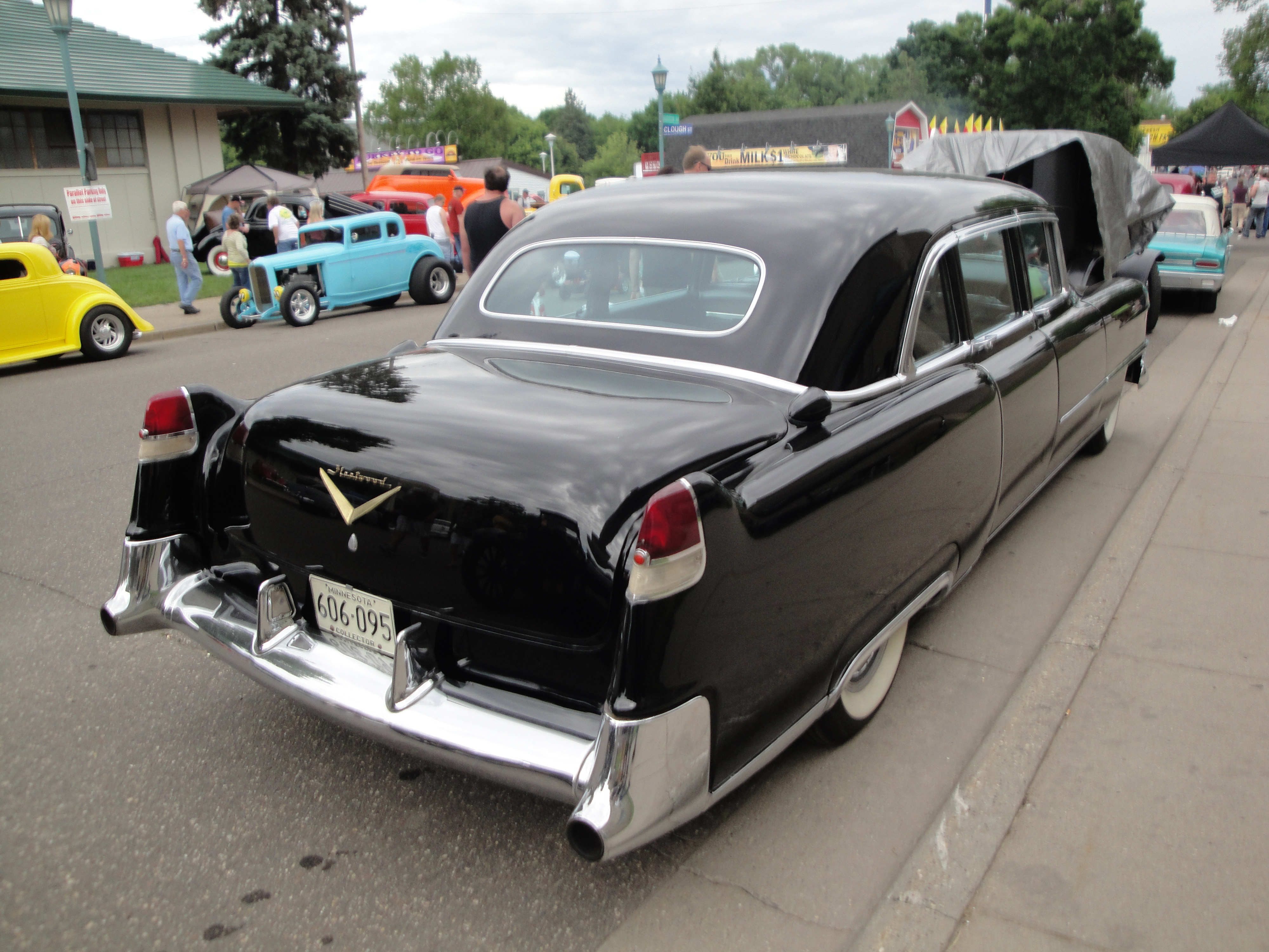 Minnesota Street Rod Association 39th Annual "Back to the Fifties" June 2012 Minnesota State Fairgrounds St. Paul MN